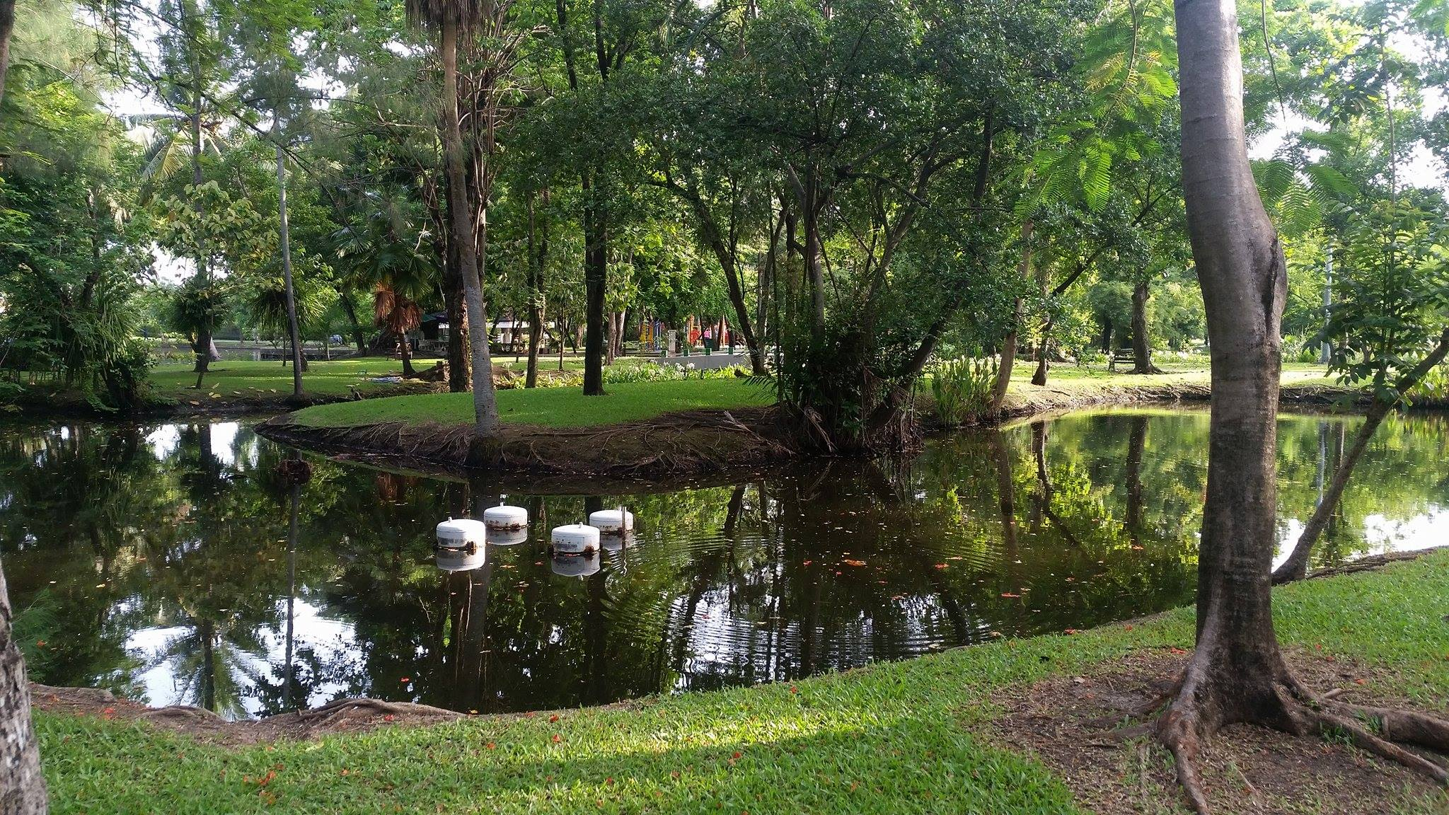 Thonburirom Prak